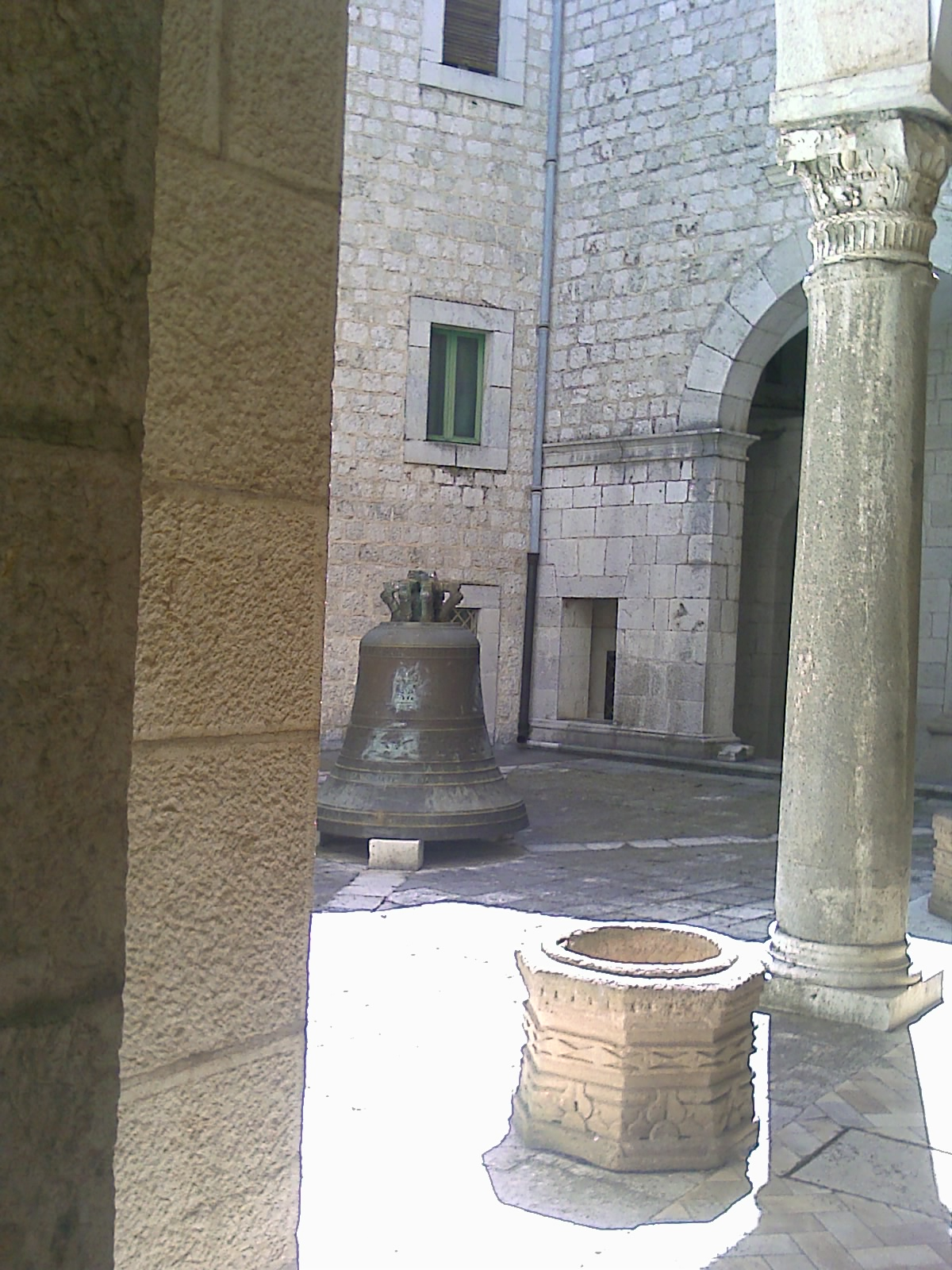 Montecassino Abbey: Bell